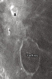 Yerkes lunar crater as seen from Earth with satellite craters labeled